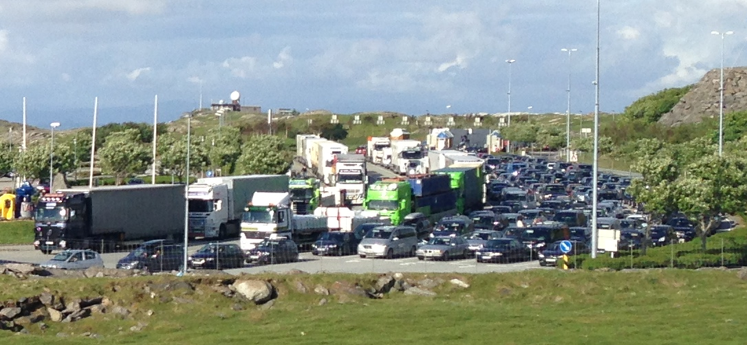 Cars waiting for the ferry in Mortavika